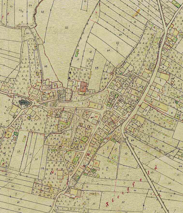 Map of Farchant, 1861